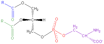 Structural formula of phosphatidyl serine (Blue/Green: Fatty acid, Black: Glycerol backbone, Red: phosphate, Purple: serine)